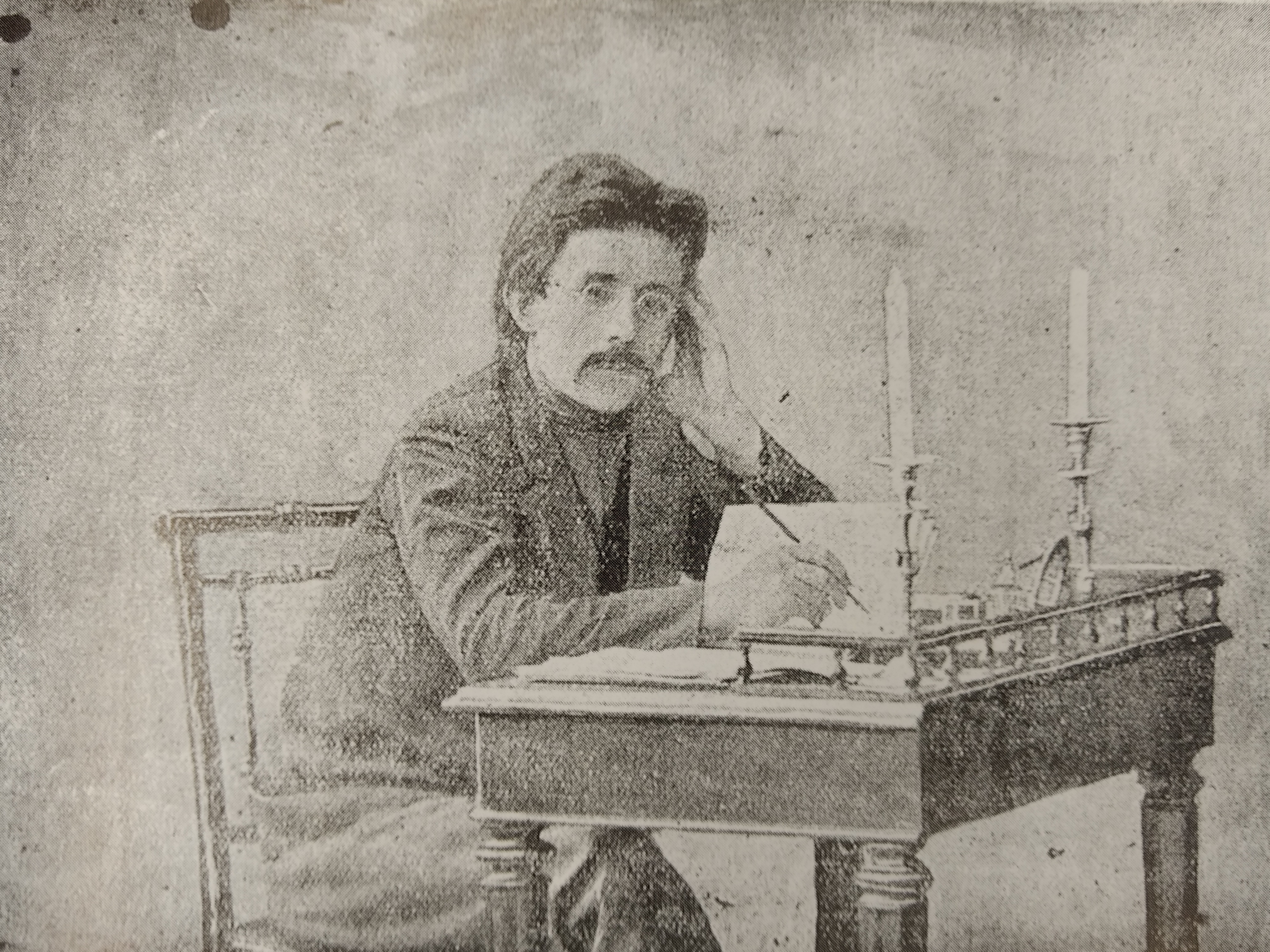 Illustration from the journal Türk Yurdu